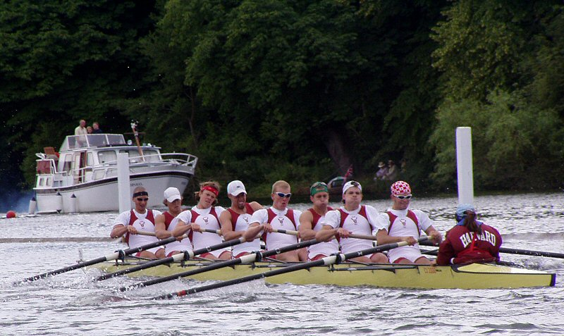 Mens eight of Harvard University in Rowing at Henley Royal Regatta 2004. Taken on 1st of July, 2004 by User:Johnteslade.